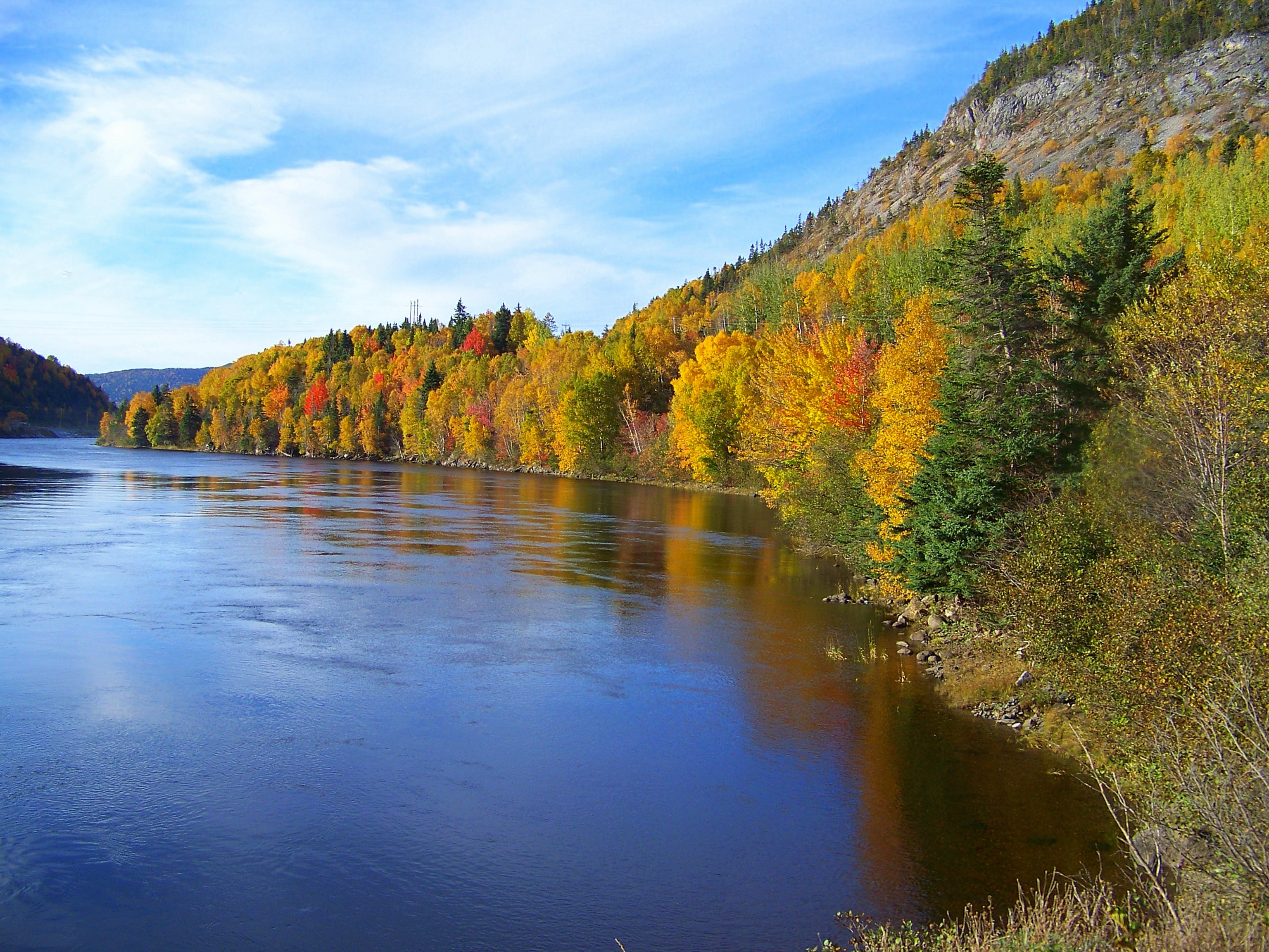 Fall in the Humber Valley. (Corner Brook)